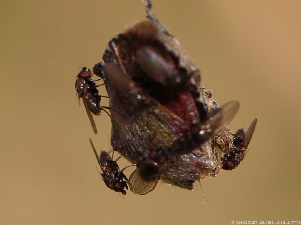 Desmometopa sp.